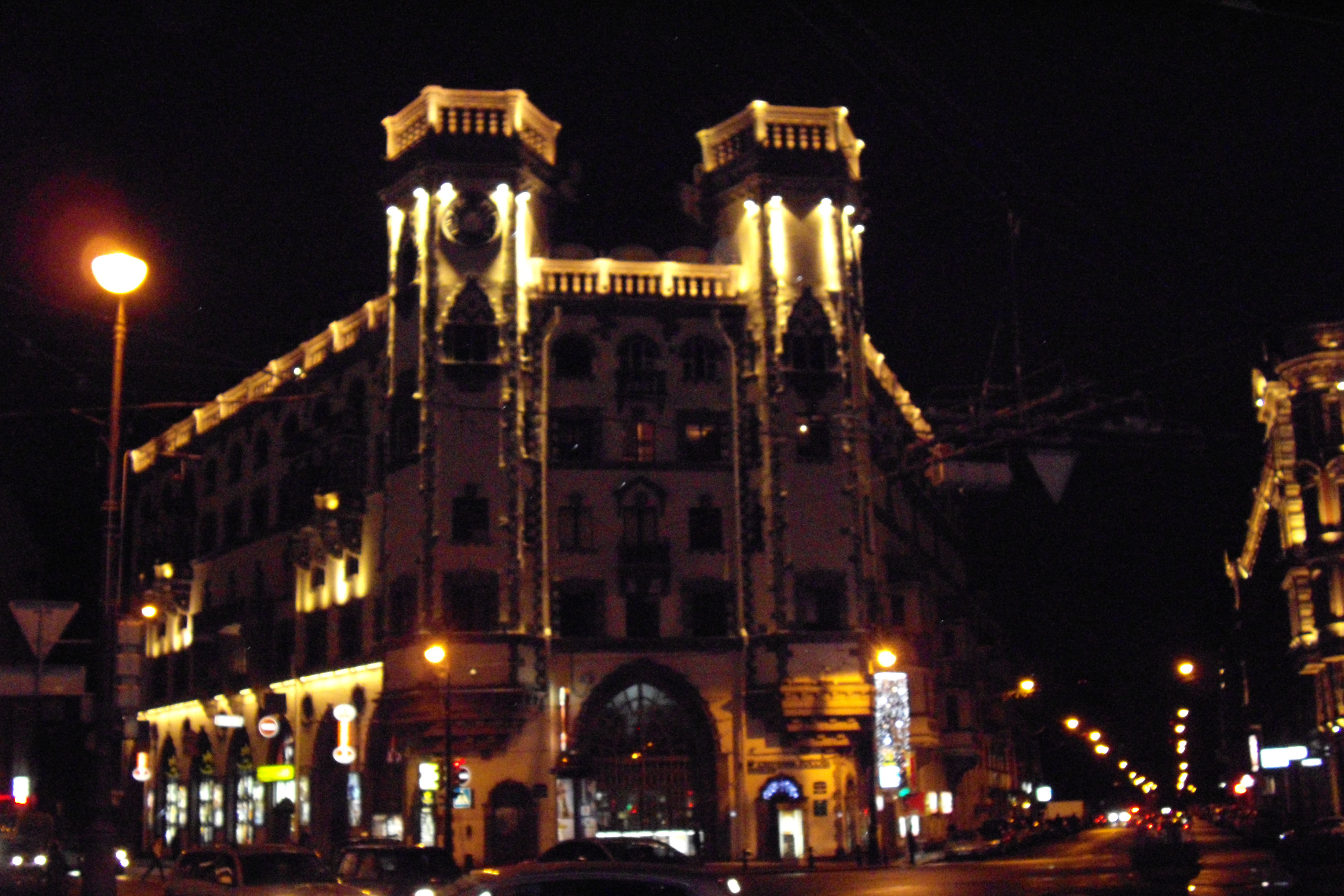 Rosenstein House (Saint Petersburg) at night